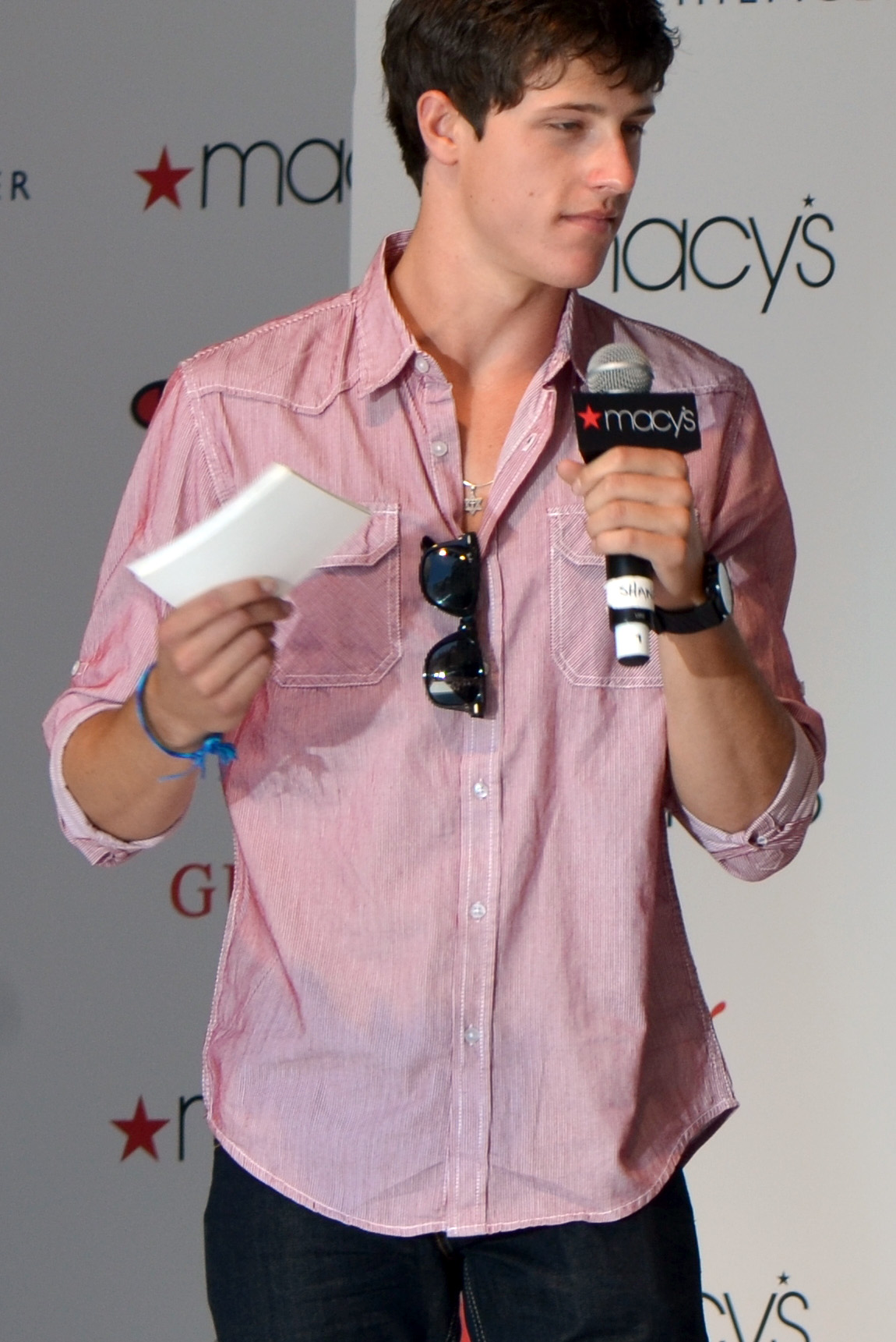 Shane Harper speaks onstage at the 2nd Annual KLOVE Fan Awards at the Grand Ole Opry House on June 1, 2014 in Nashville, Tennessee. Shane Harper, star of God's Not Dead, (the movie, which won the Film/Television Impact Award) took a few minutes to talk about his life on the Red Carpet at the 2nd Annual K-LOVE Fan Awards.